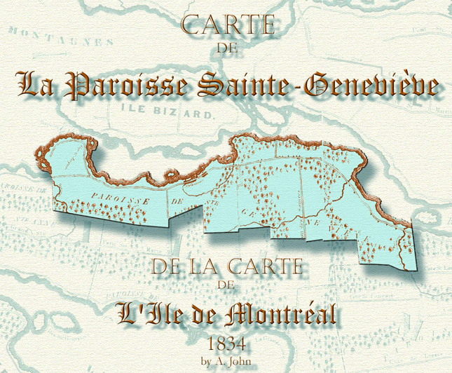 Detail map of the parish of Sainte-Geneviève (Paroisse_Sainte-Geneviève), Quebec in 1834. The detail is from Carte de L'Ile de Montréal, drawn the same year by A. John. It is available online at the Quebec National Library and Archives. This image is an original recomposite by Bill Wrigley, done in Photoshop.